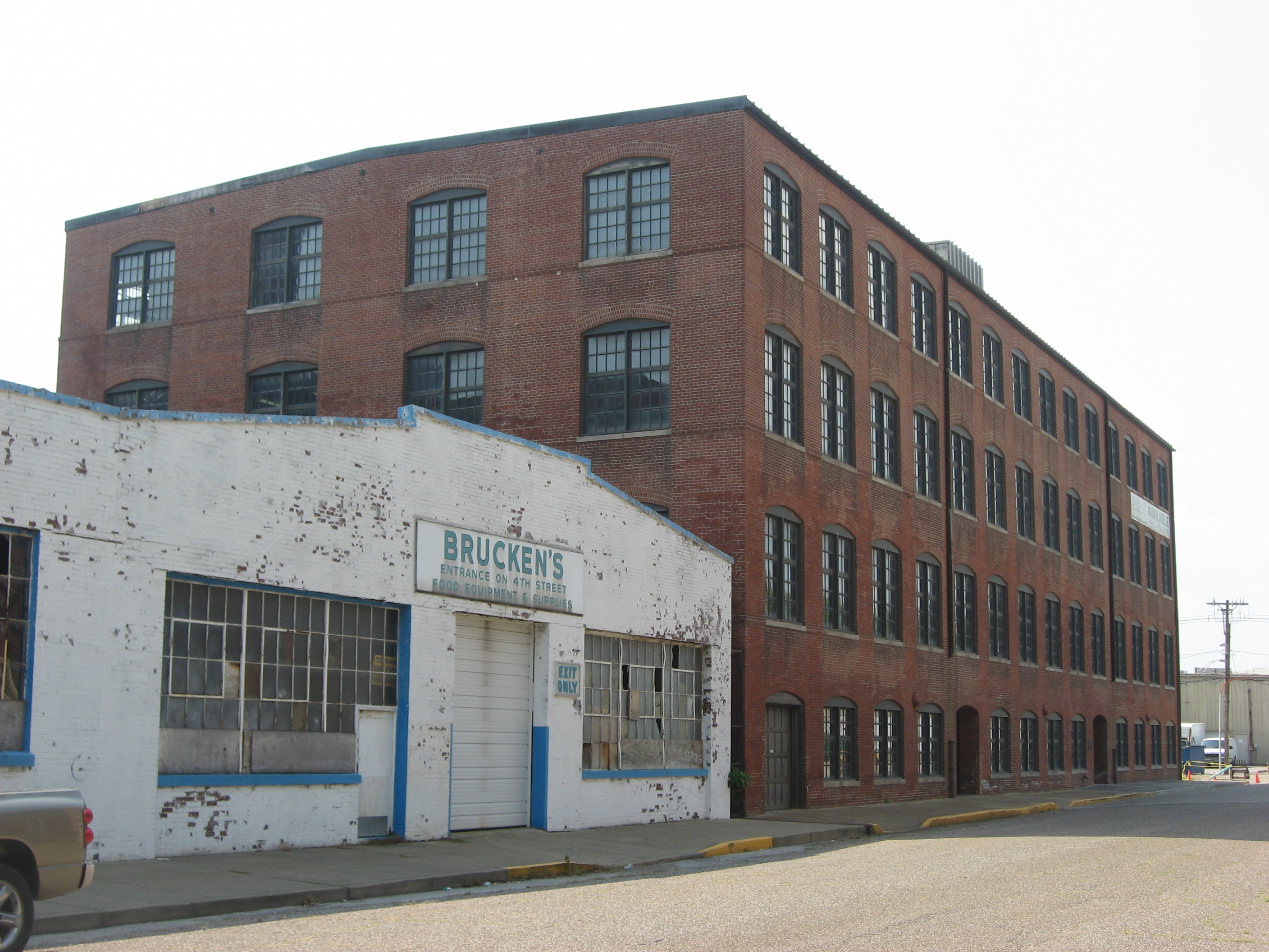 Front of the offices of Charles Leich and Company, located at 420 NW. Fifth Street in Evansville, Indiana, United States. Built in 1898, it is listed on the National Register of Historic Places.